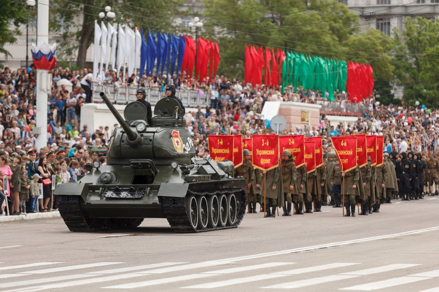 The ceremonial events devoted to the 73rd anniversary of the Great Victory in Tiraspol.